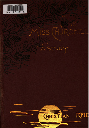 "Miss Churchill: A Study", By Christian Reid